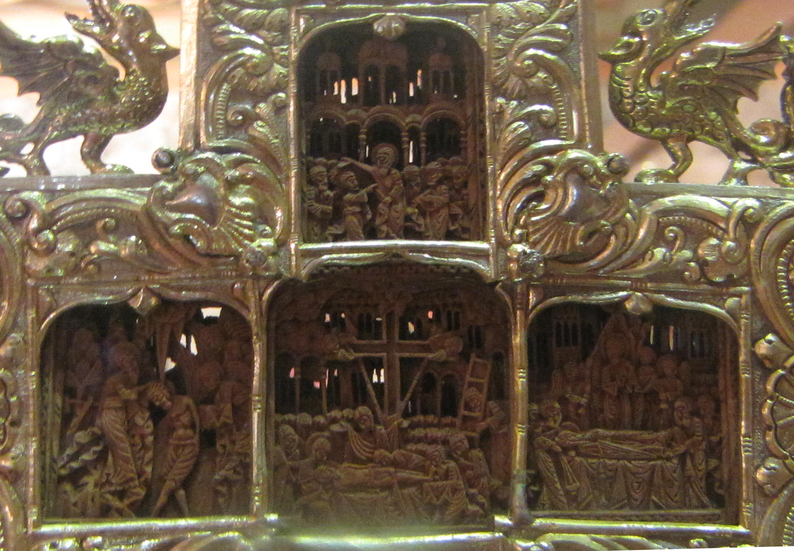 Miniature wood carving work within a metal cross.